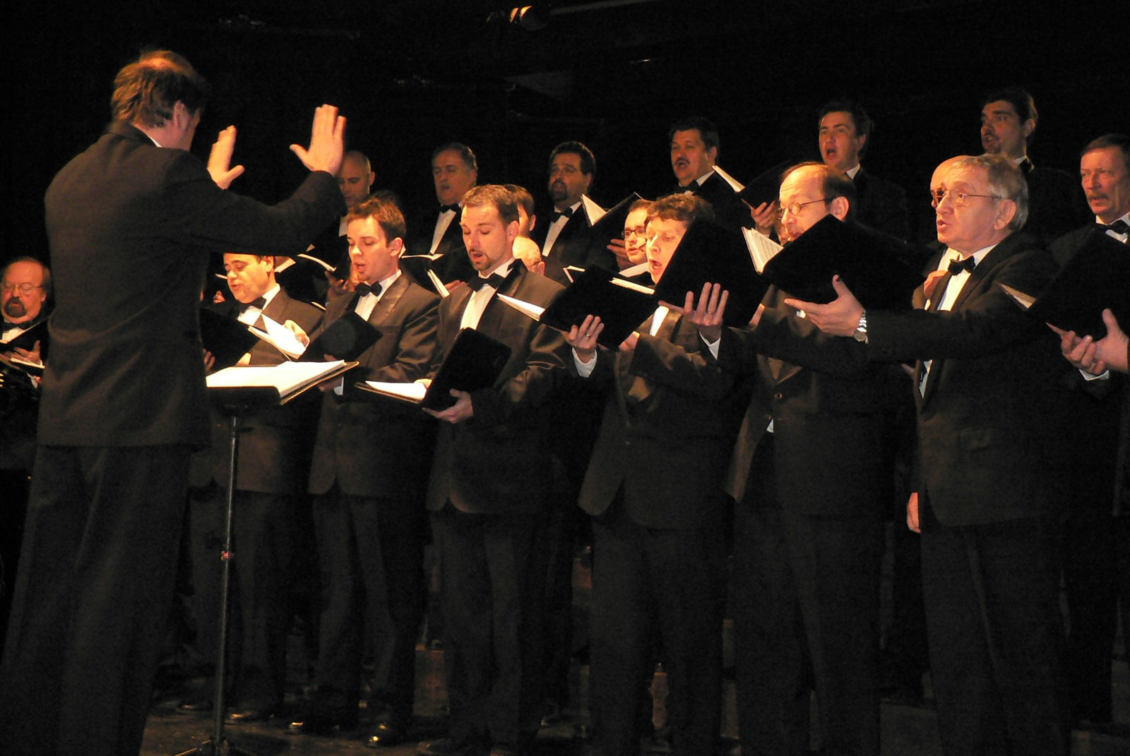 A Honvéd Férfikar fellépése 2010-ben Solymáron